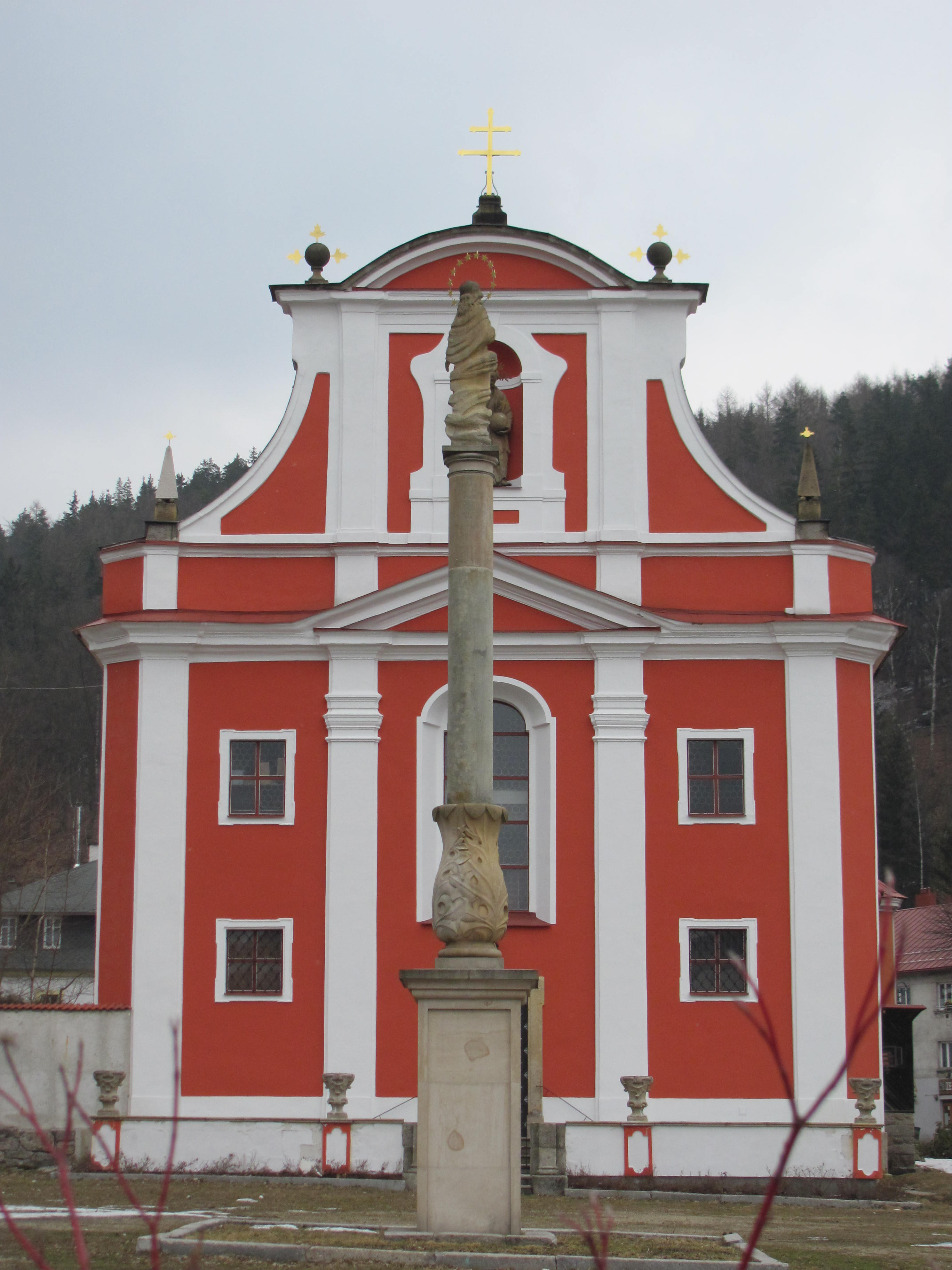 Column with the statue of St. Maria in front of St. Martin's church in Nejdek, (Karlovy Vary District)